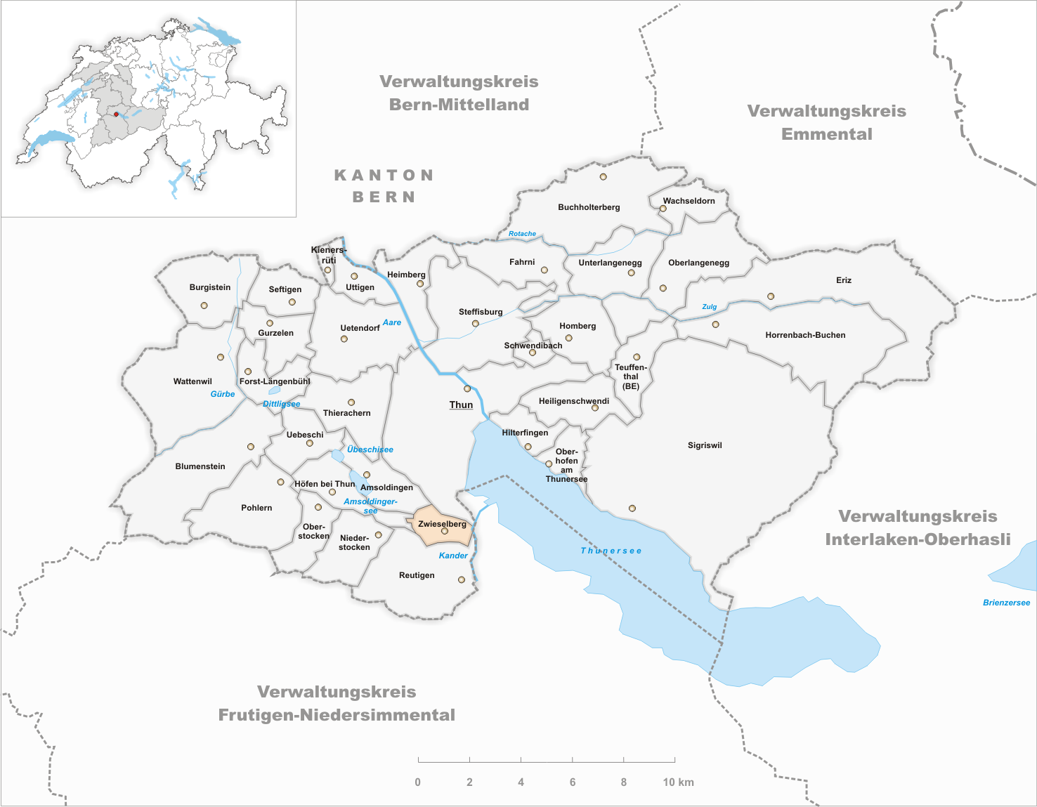 Municipality Zwieselberg